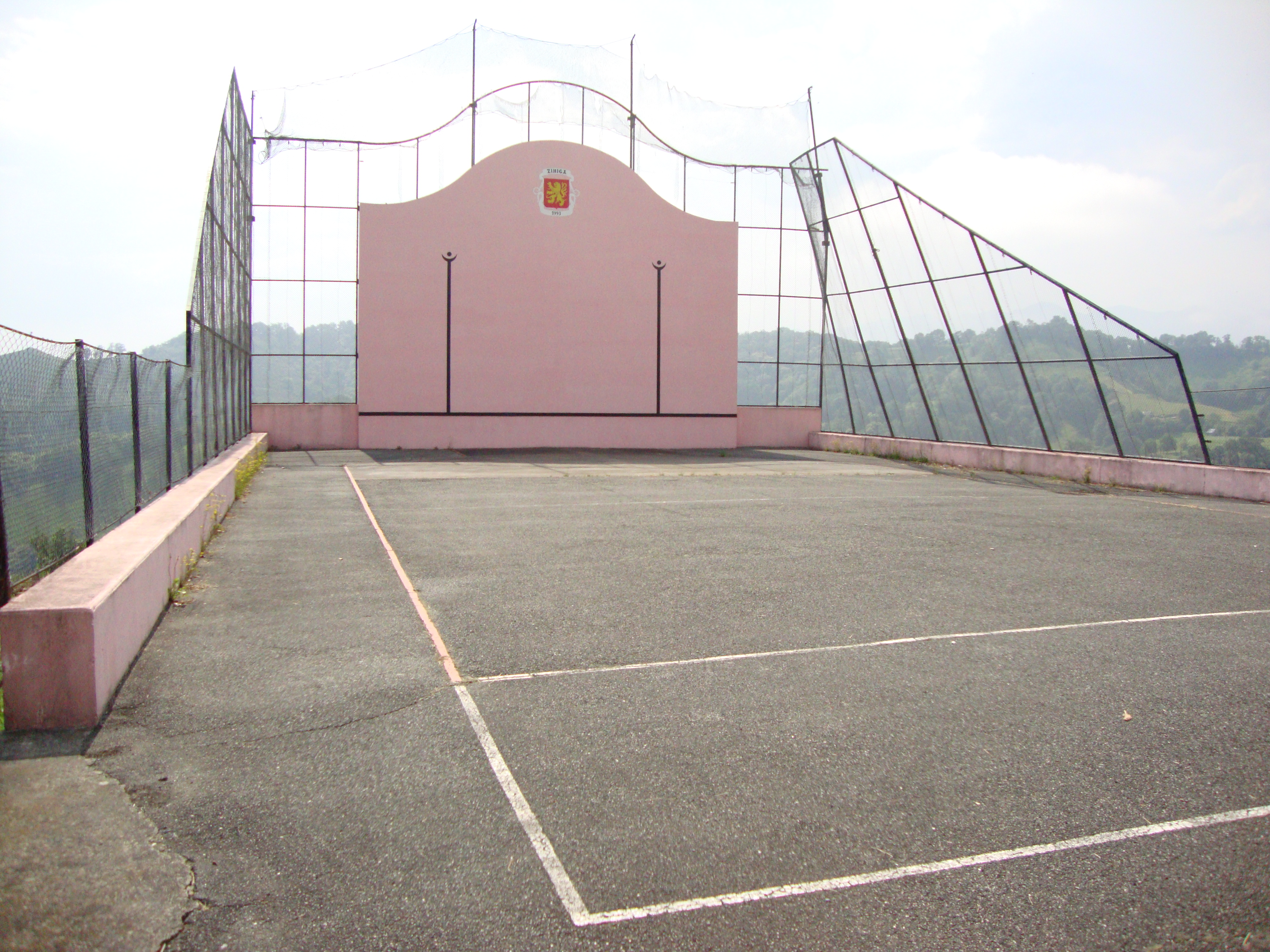 Cihigue (Camou-Cihigue, Pyr-Atl, Fr) pelota court